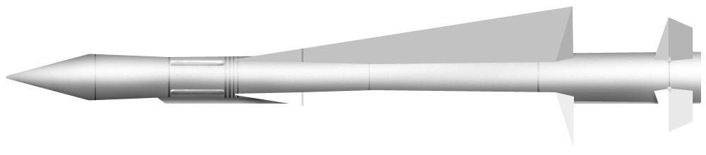 Bisnovat R-4 (AA-5 Ash) air to air missile scheme